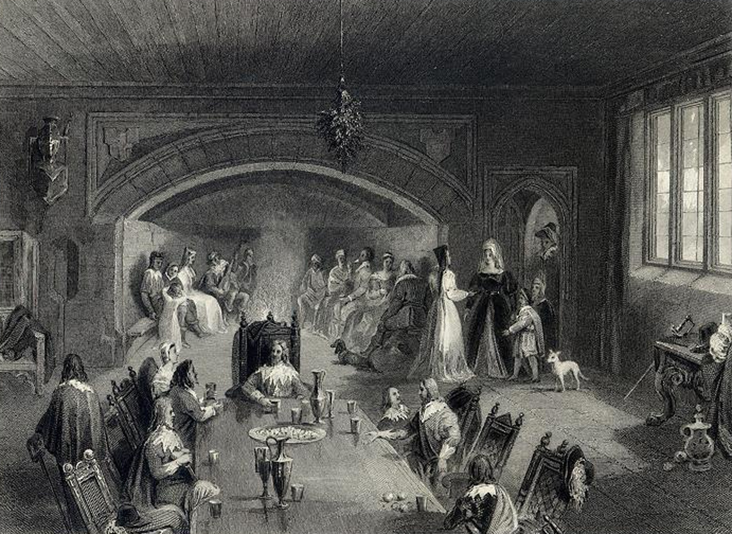 Wycoller Hall 1650. This engraving is of Christmas in the dining hall of the house.